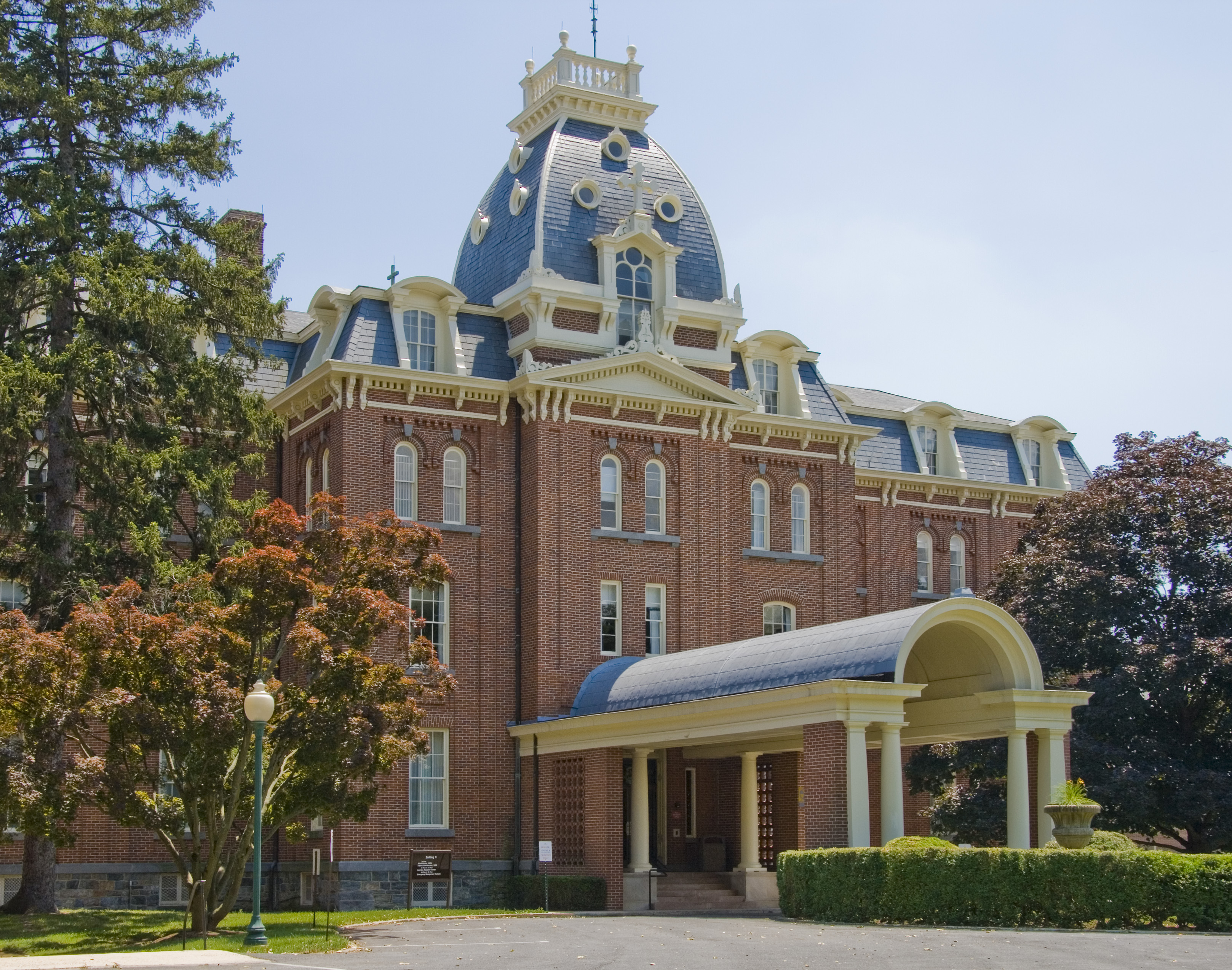 Burlando Building (Administration), National Fire Academy, Emmitsburg, Maryland, USA. Formerly St. Joseph's College